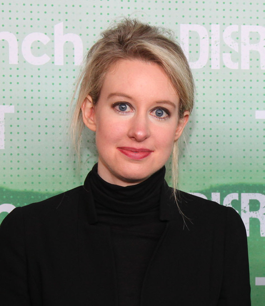 Cropped photo of Elizabeth Holmes Backstage at TechCrunch Disrupt San Francisco 2014. Photo by Max Morse for TechCrunch.